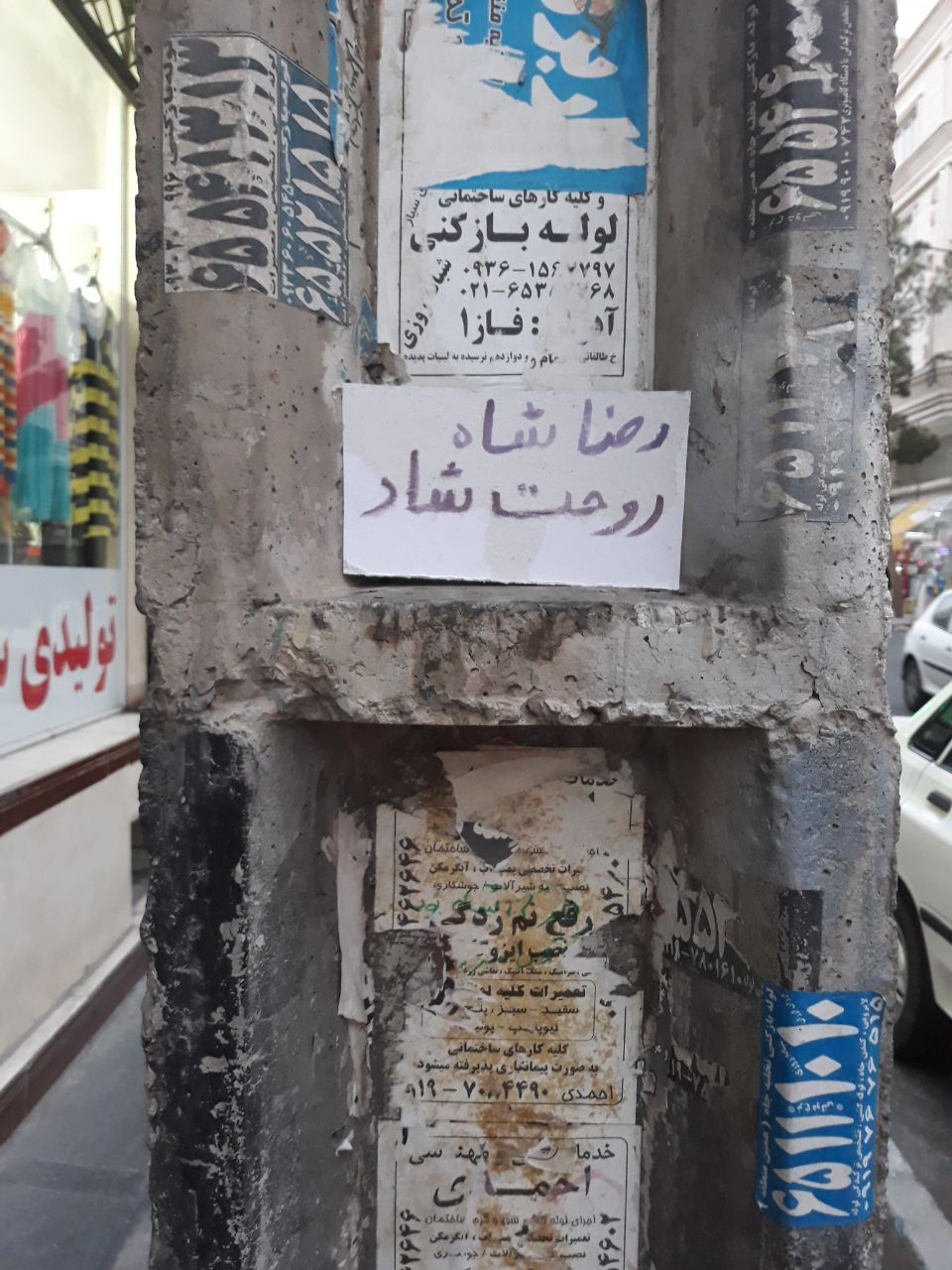 Related to 2017–18 Iranian protests